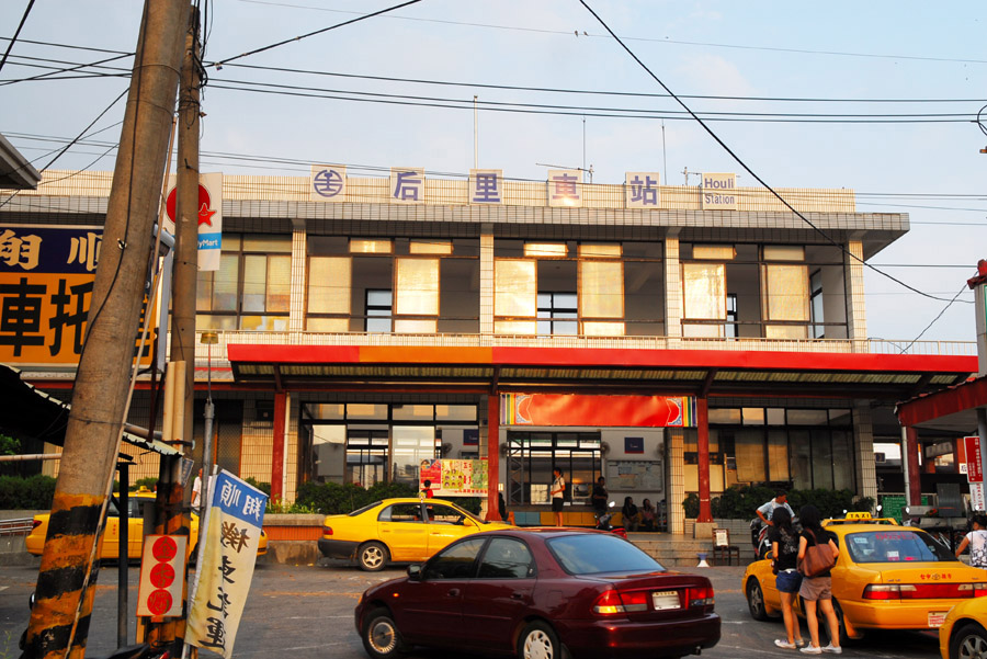 HouLi Station is a local train station of TaiChung Line, part of Taiwan's Western main rail line. It's the main station of HouLi Township, TaiChung County.Bân-lâm-gú: Āu-lí-tshia-tsām sī Tâi-thih Suann-suànn(Tâi-tiong-suànn) siōng ê tsi̍t-tsō tē-hng tshia-tsām, sī Tâi-tiong-kuān Āu-lí-hiong ê tsú tshia-tsām.